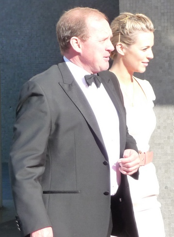 Peter Firth at the BAFTA's